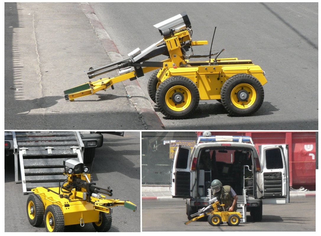 "Bambi" Bomb disposal robot of the Israeli Police